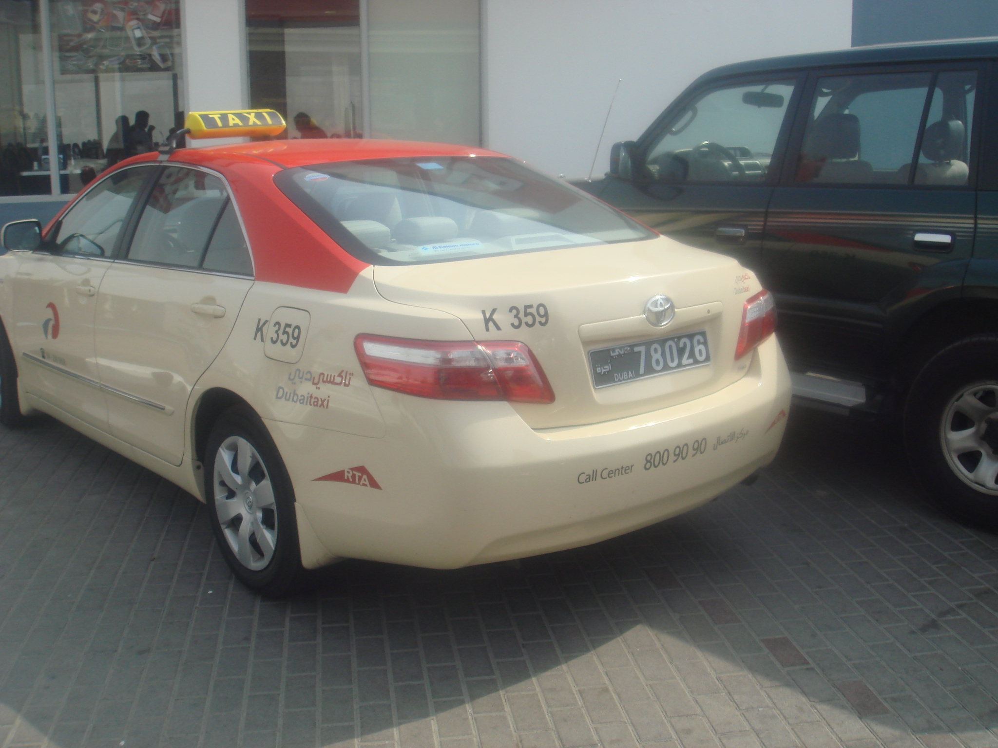 A Taxi In Dubai